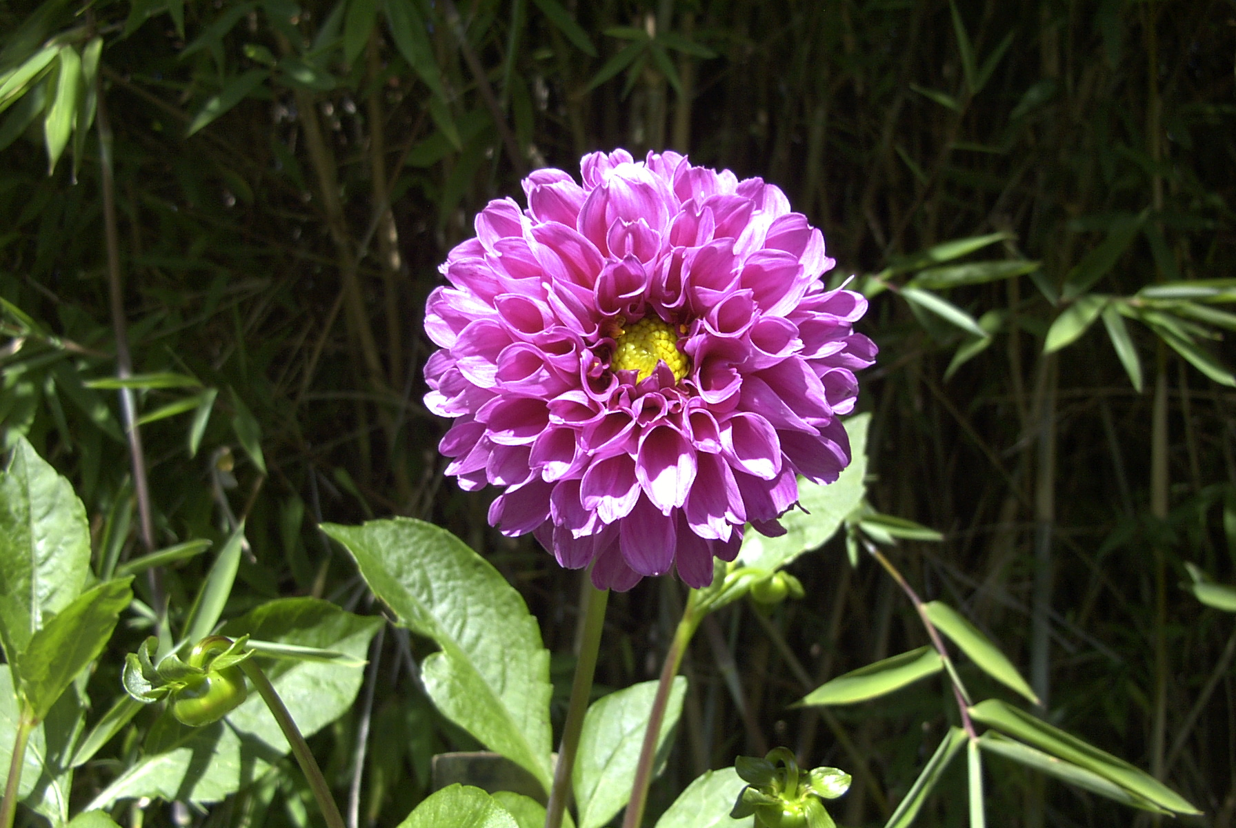 Dahlia